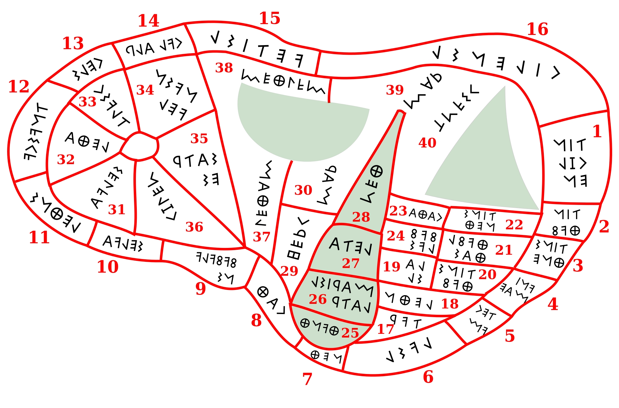 Diagram of the inscriptions of the Liver of Piacenza (TLE 719). The arrangement of the lettering is reproduced with an Etruscan Unicode font; it's a transcription and does not directly imitate the shape or placement of the individual letters. Note that many of the readings are highly uncertain and different authors will give different reconstructions. The readings in this particular diagram are those of Alessandro Morandi, Nuovi lineamenti di lingua etrusca, Massari, 1991. (note that they are not taken from the publication directly, but via this pdf document (pp. 63-65) at etruschi-tirseni-velsini.it and need to be verified c.f. also Nancy Thomson De Grummond, Etruscan Myth, Sacred History and Legend (2006), p. 50). sixteen "houses" on the circumference, beginning in the "north" (on the right-hand side on this diagram) and running clockwise 1. tin/cil/en 2. tin/θvf 3. tins/θne(θ) 4. uni/mae 5. tec/vm 6. lvsl 7. neθ 8. caθ 9. fuflu/ns 10. selva 11. leθns 12. tluscv 13. cels(c) 14. cvl alp 15. vetisl 16. cilensl eight items in "tabular" arrangement (bottom right) 17. tur 18. leθn 19. la/sl 20. tins/θvf 21. θufl/θas 22. tins/neθ 23. caθa 24. fuf/lus four items on the elevated "wedge" 25. θvnθ(?) 26. marisl/latr 27. leta 28. neθ two items to the left of the "wedge" 29. herc 30. mar six items in "circular" arrangement on the left 31. selva 32. leθa 33. tlusc 34. lvsl/vel(x)? 35. satr/es 36. cilen two on either side of the semi-circular structure in the center 37. leθam 38. meθlvmθ two at the point of the "wedge", to the left of the "tetrahedron" structure 39. mar 40. tlusc